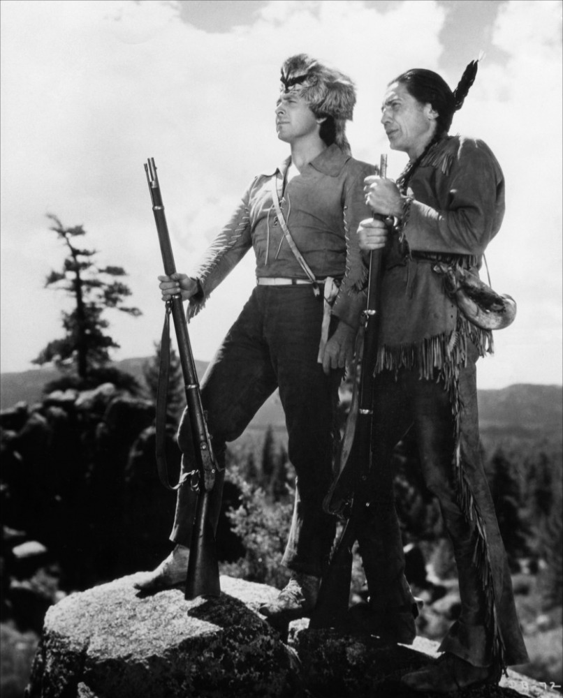 George O'Brien (left) and George Regas in Daniel Boone (1936) - cropped screenshot